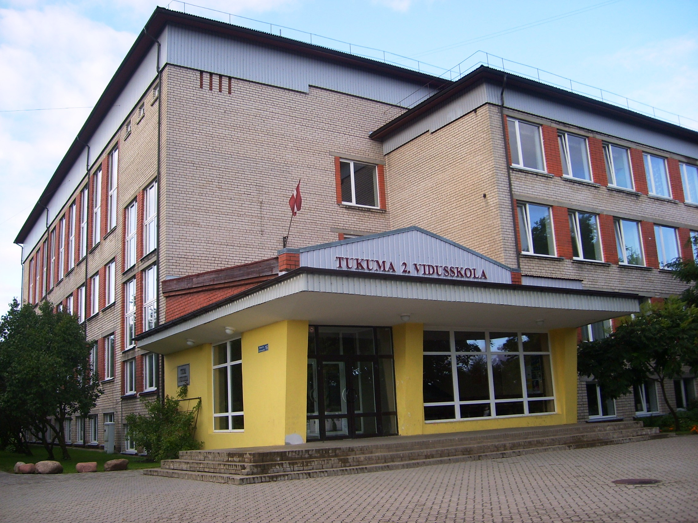 2. secondary school (Tukums)